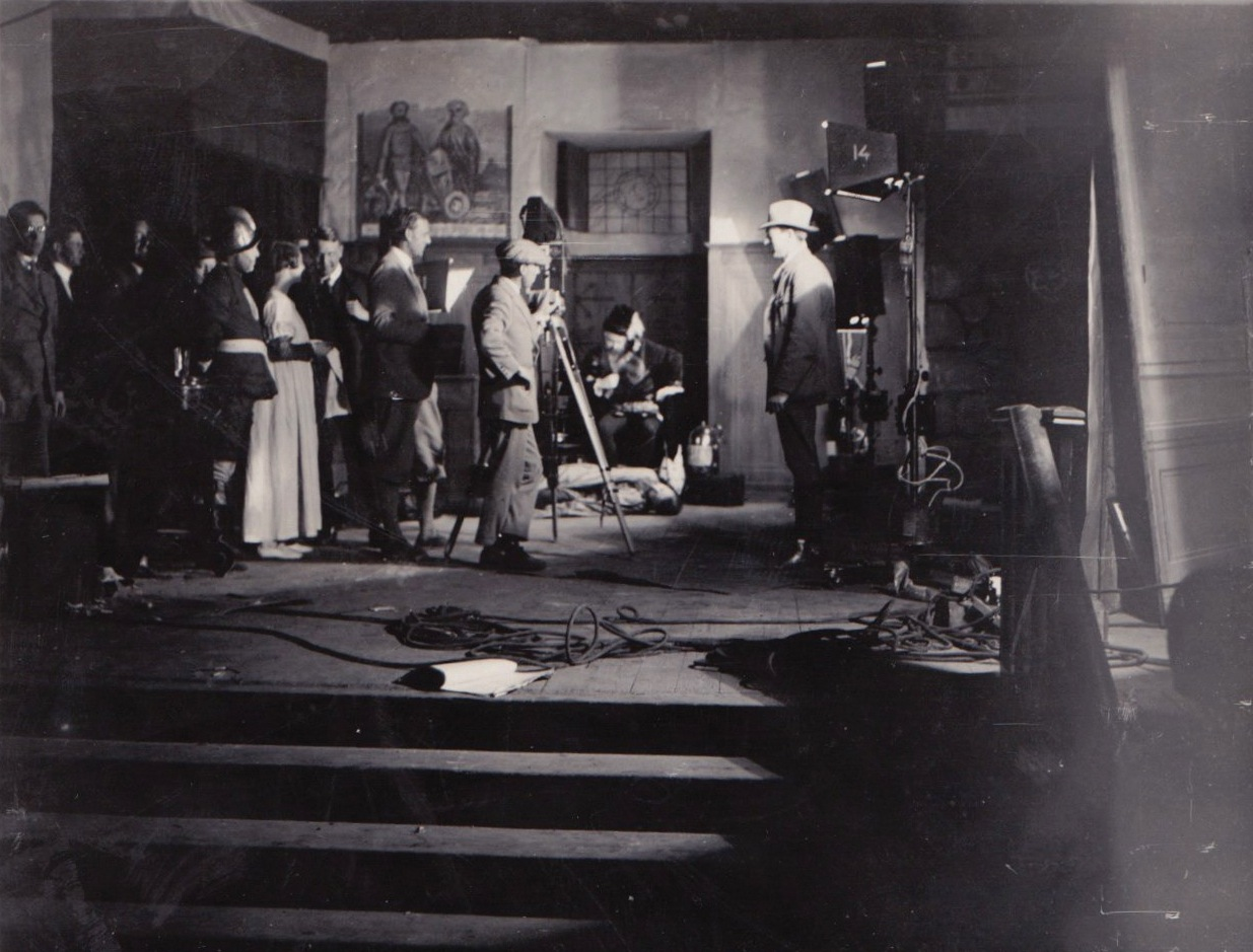 Scene from the filming of Erik XIV, a parodical historical drama made by the students of Lund University for the students' carnival (Lundakarnevalen) of 1928.